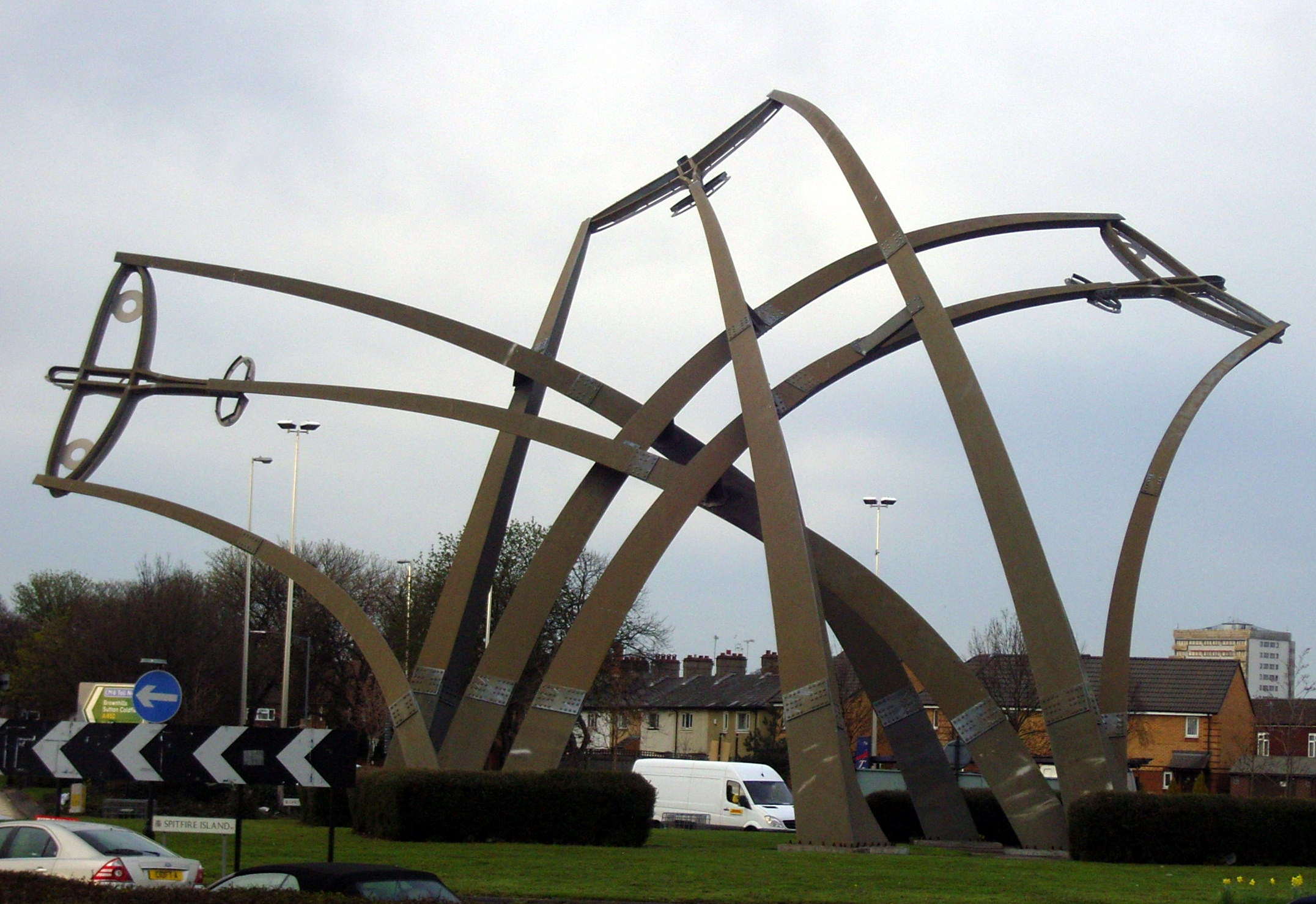 The Sentinel monument on Spitfire Island, Castle Bromwich, Birmingham commemorates the manufacture of almost 12,000 Spitfire fighter aircraft by Vickers Armstrong at this site between 1940 and 1945. The sculpture was designed by Tim Tolkien, great nephew of J R R Tolkien author of The Lord of the Rings and was unveiled in October 2000 by Alex Henshaw the former chief test pilot at Castle Bromwich aerodrome.